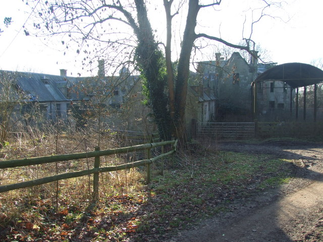 Disused stable block of Calwich Abbey An abbey was first built on the site in 1148, however the latest hall was built in 1848 and demolished in 1935, leaving only the stable block which is visible today.